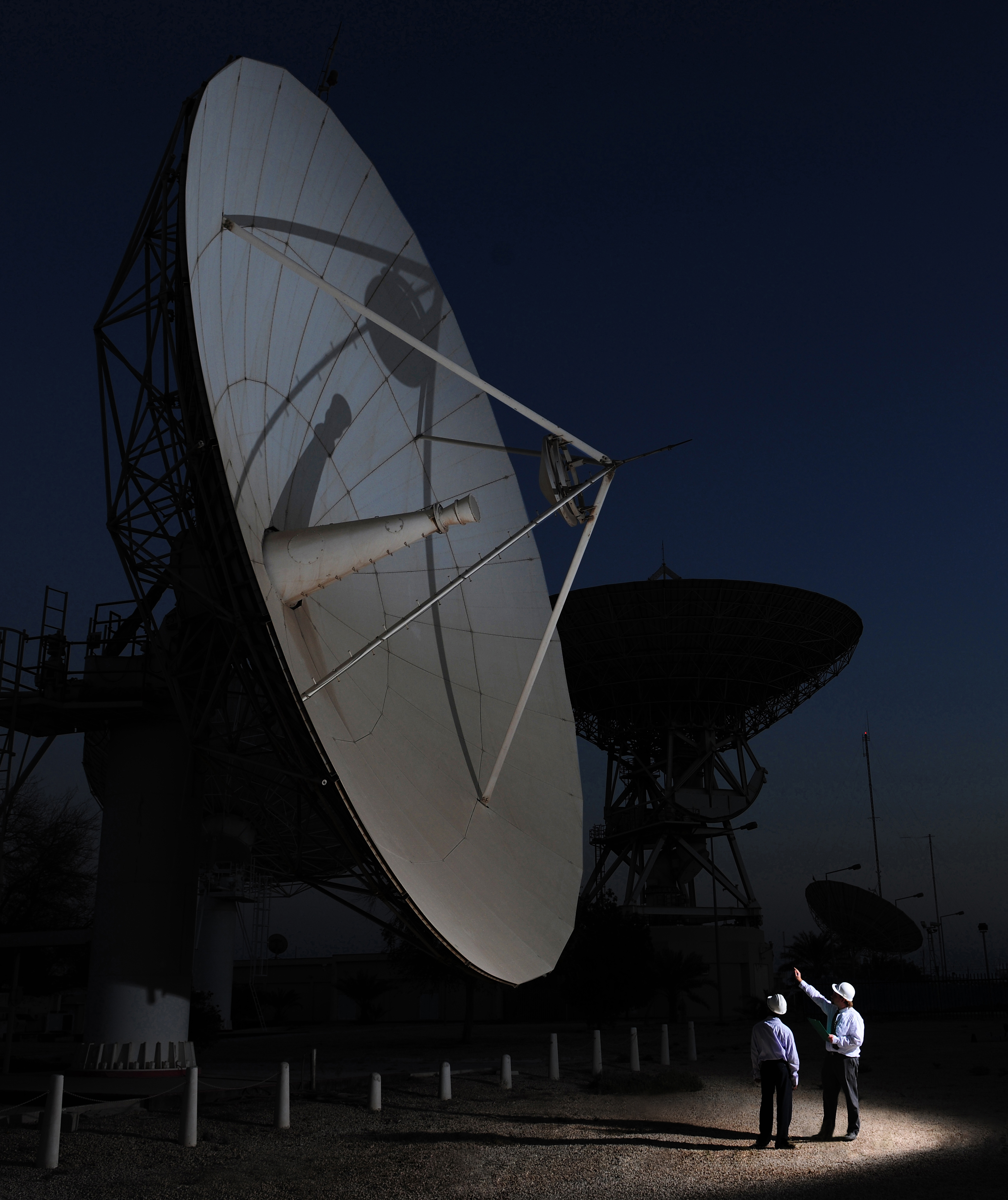 A Batelco Earth Station_Night View of Satellite